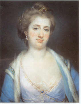 Portrait of Elizabeth Pierrepont, Duchess of Kingston-upon-Hull (1720-1788)